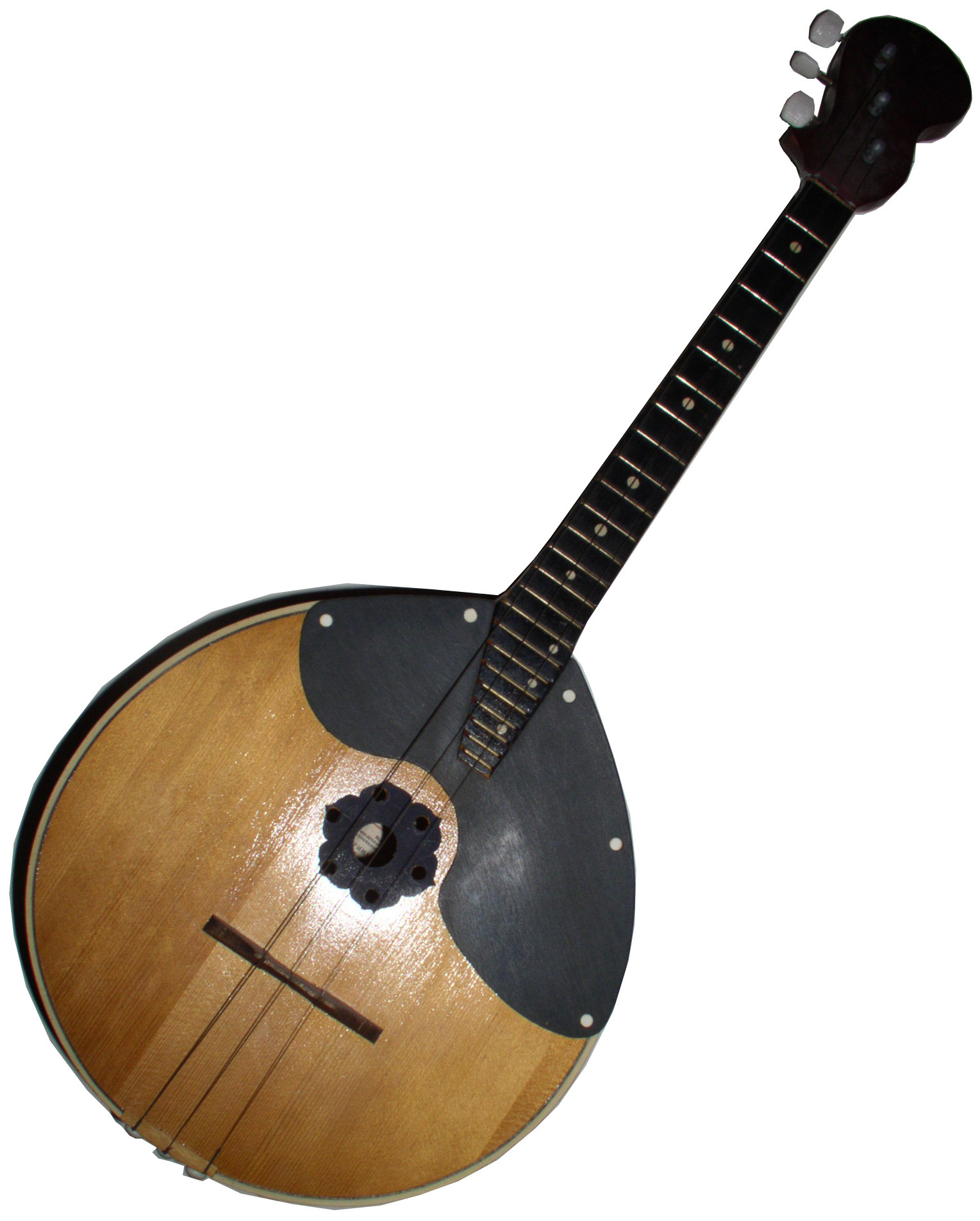 Russian Domra - top-view